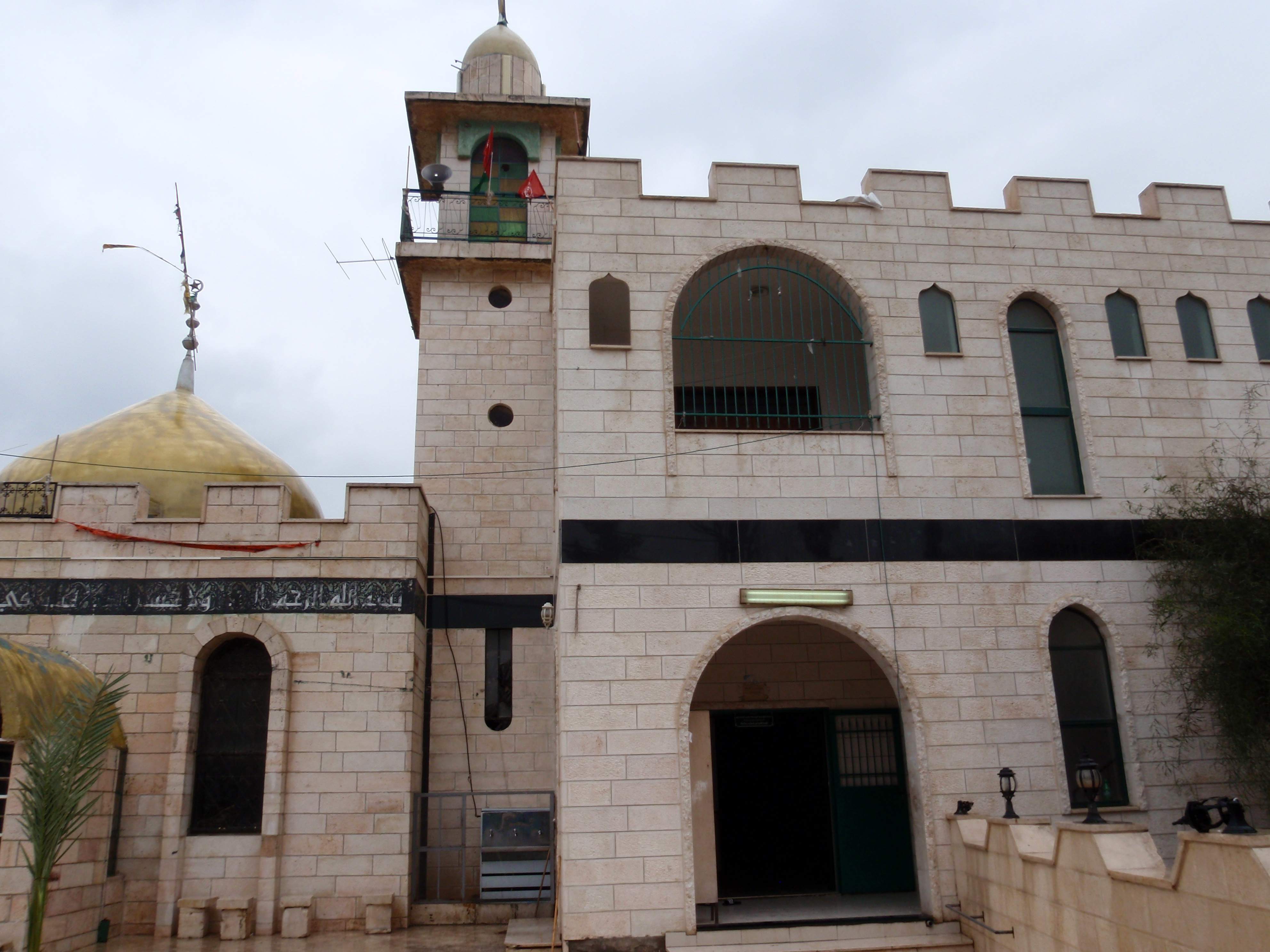 Main Mosque, Bilin, West Bank, Occupied Palestine